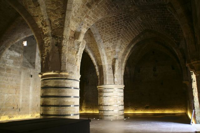 For more pictures and videos of Israel, please visit here. The Knight's Halls, underneath the Citadel in Akko (Acre)